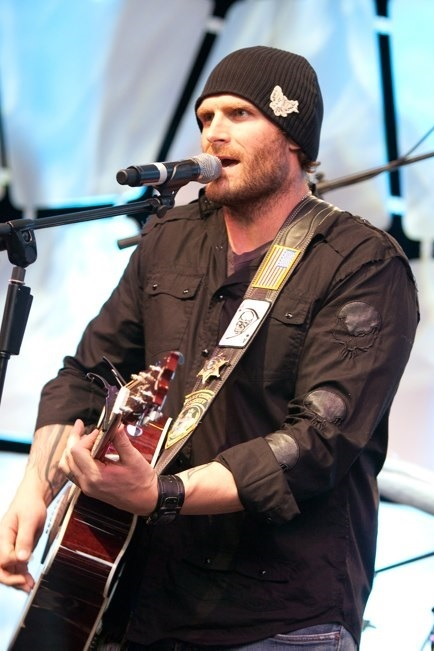 Kyle Turley performing onstage at the Gridiron Greats Night of Champions event